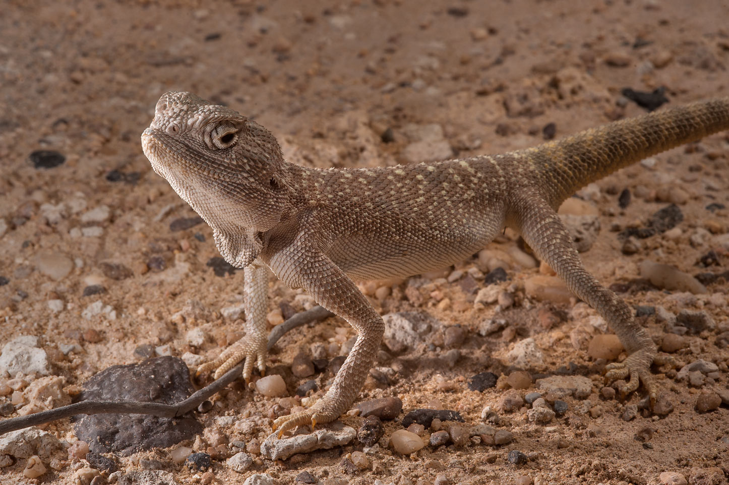 Close-up of Yellow spotted agama in Al Rekayya Farms, Qatar.